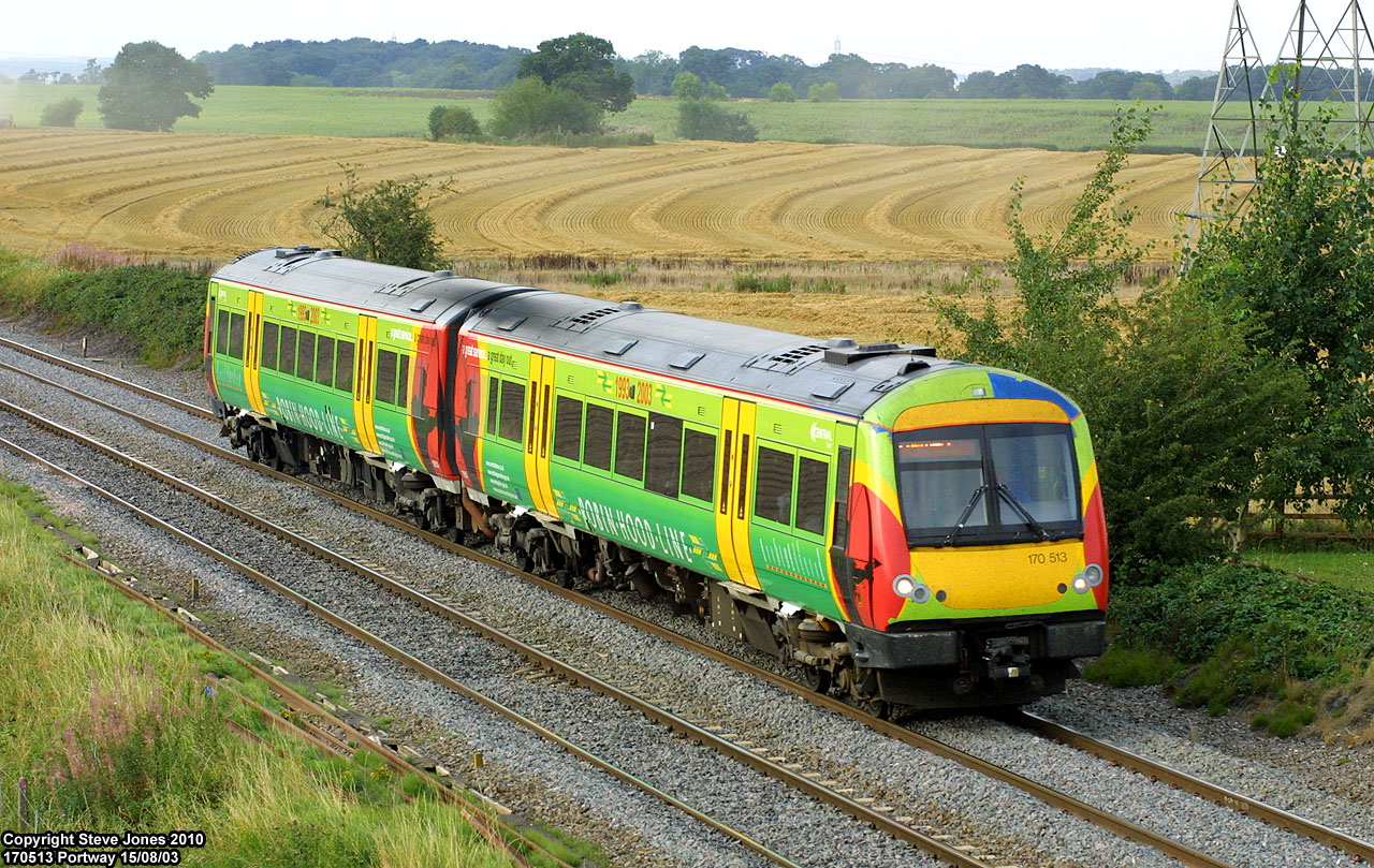 170513 at Portway on 15/08/03